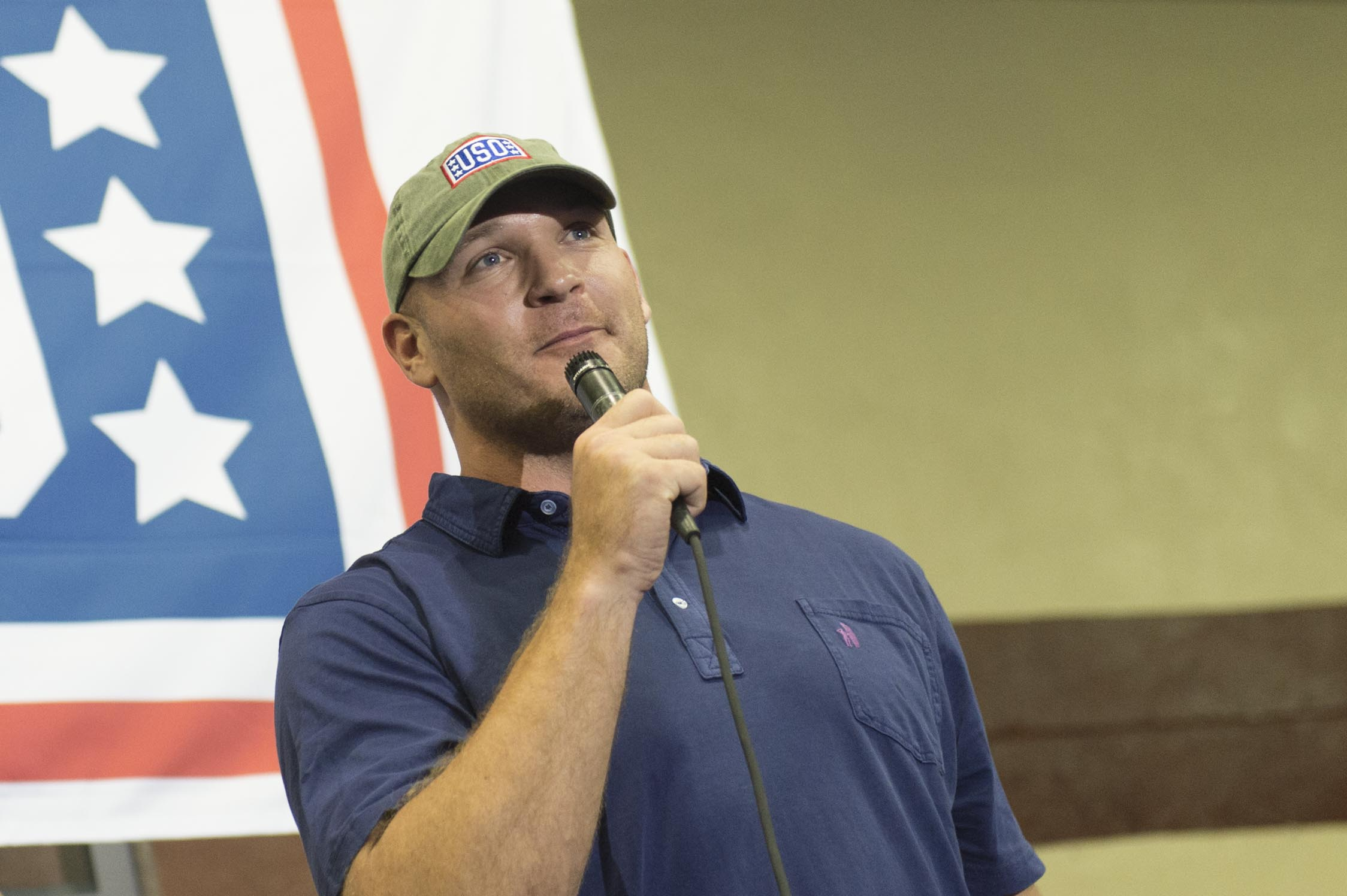 Incirlik, Turkey, Dec. 8, 2014. (DOD photo by D. Myles Cullen/Released) Brian Urlacher visits US Troops at the Bagram Airfield.